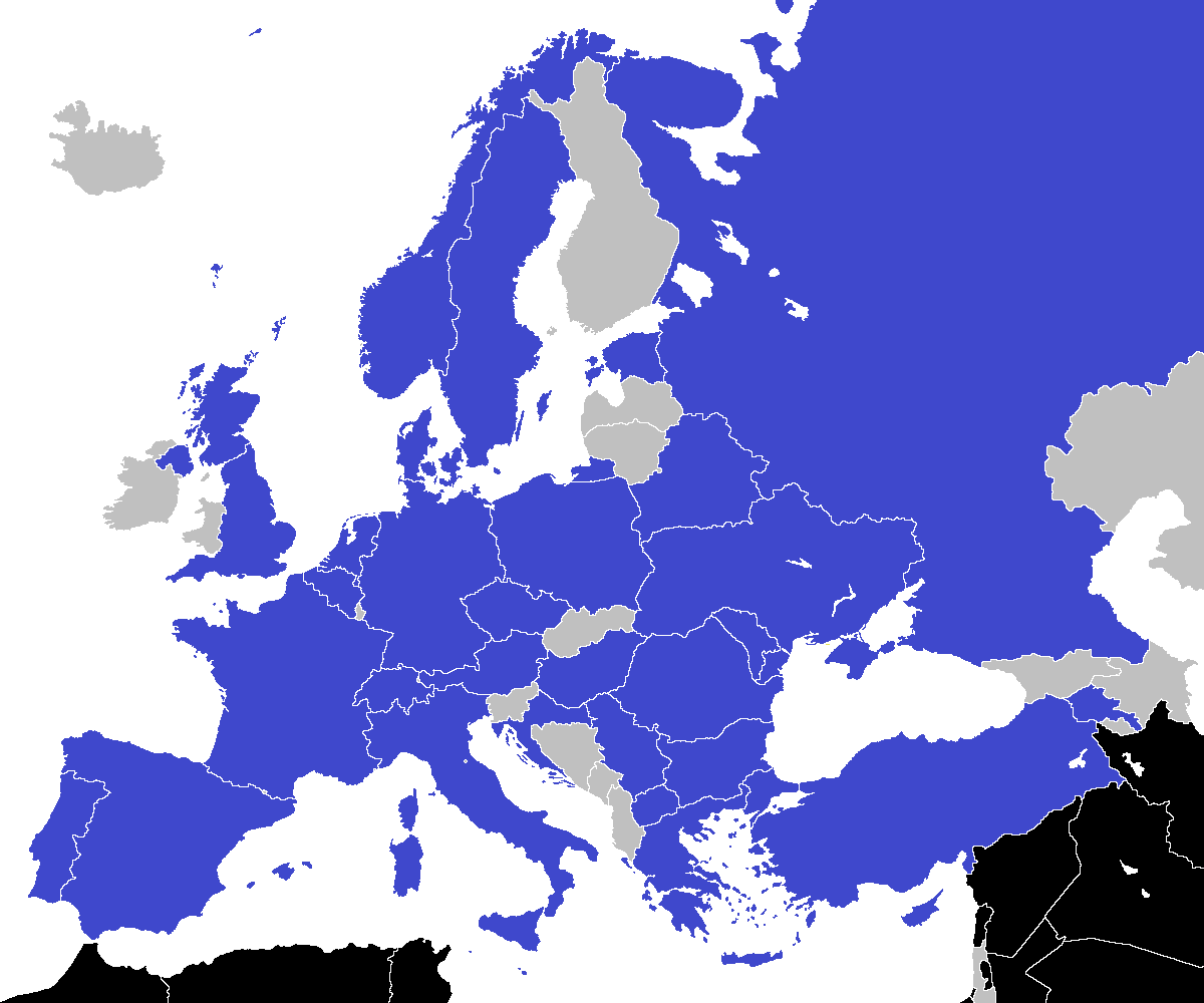 Derivative work by me. Original uploader was SteveGOLD at en.wikipedia